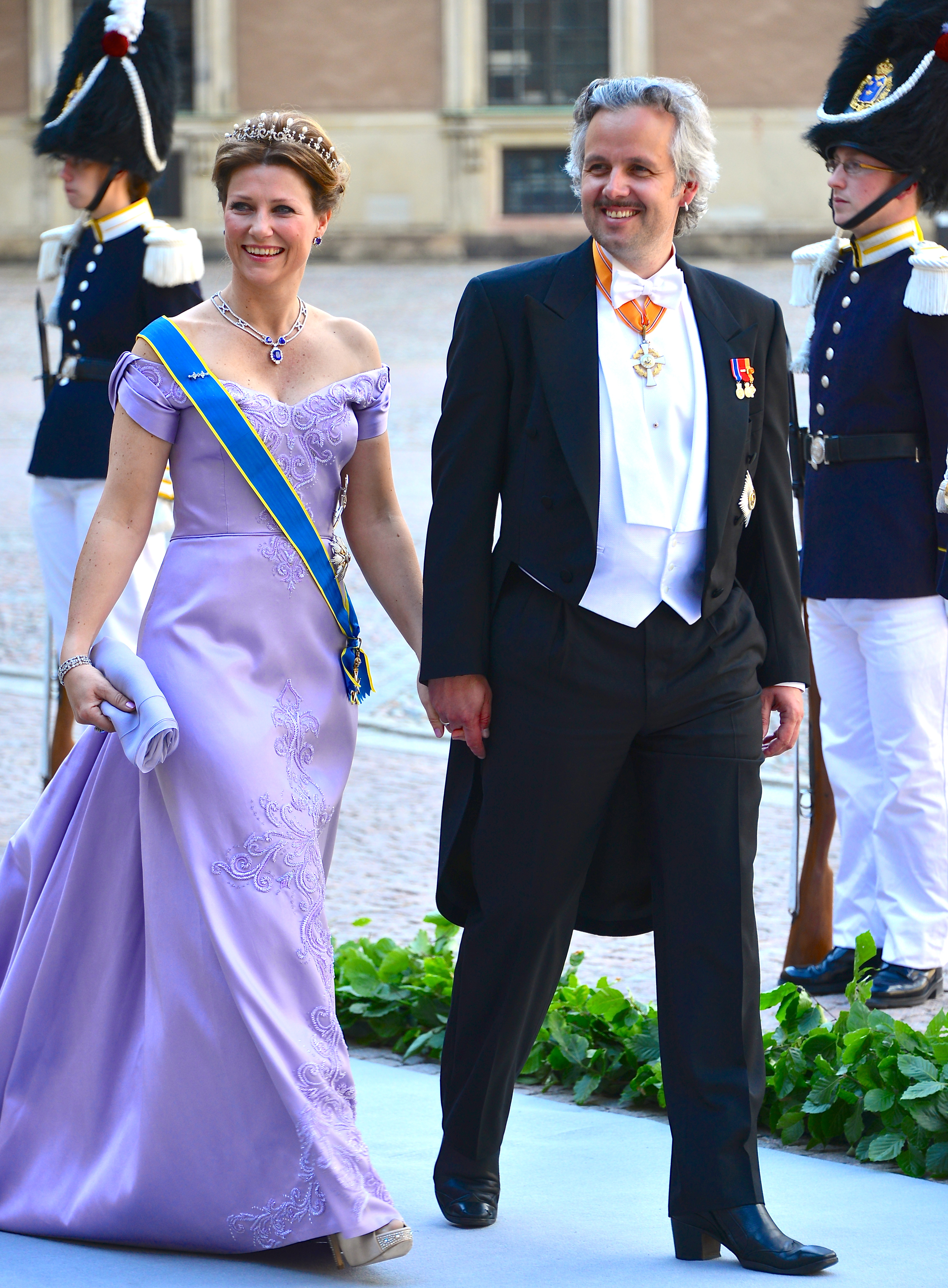 Princess Märtha Louise of Norway and Ari Behn the way to the castle church at the Royal Palace in Stockholm before the wedding between Princess Madeleine and Christopher O'Neill June 8, 2013.